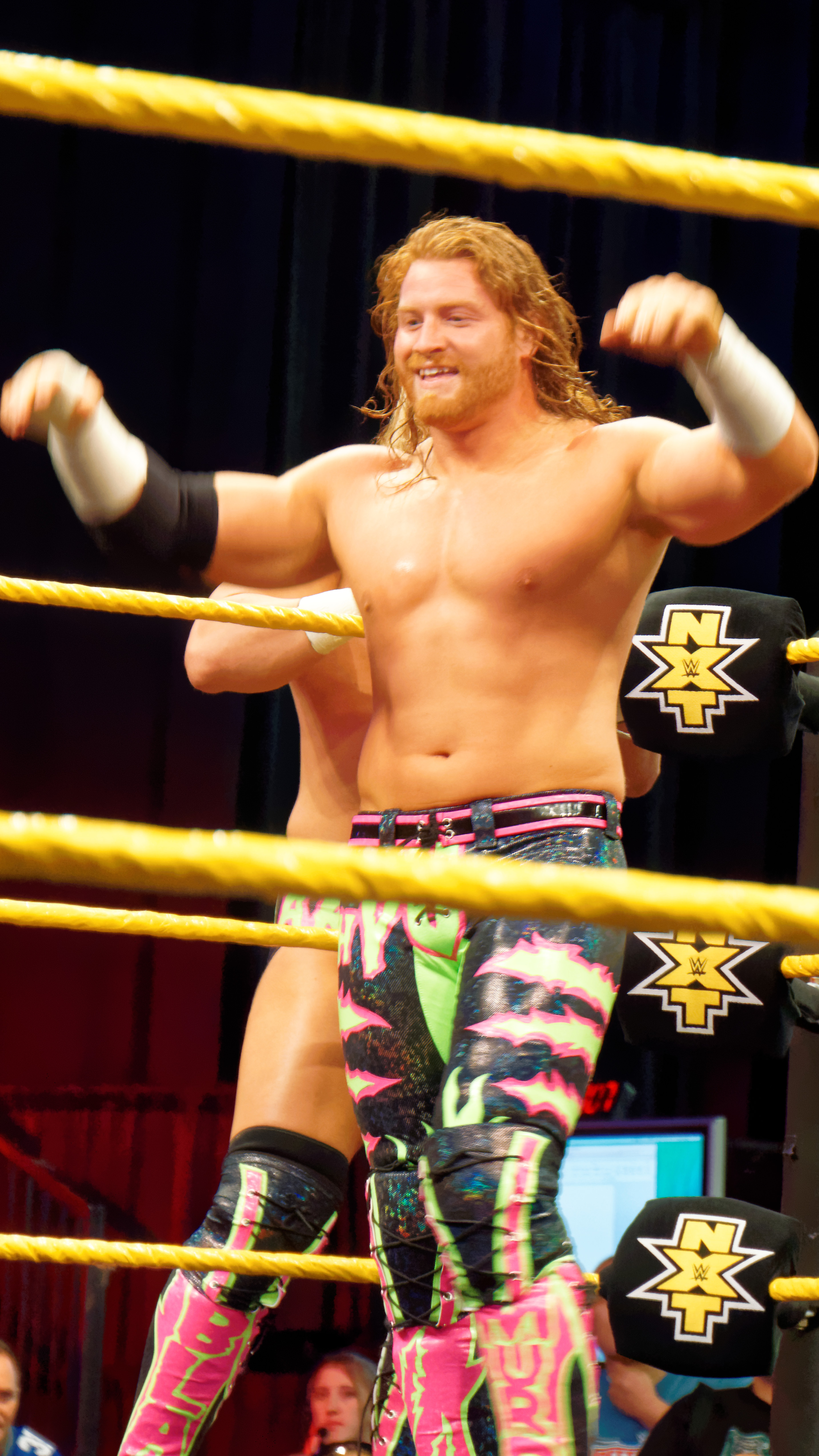 WrestleMania Axxess takes over the Kay Bailey Hutchison Convention Center in Dallas March 31-April 3. Featuring Superstar and Diva meet-and-greets, memorabilia displays and much more, WrestleMania Axxess is one event WWE fans of all ages will want to be part of. Don't miss out!